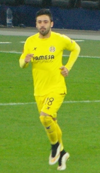 UEFA Euro League Round of 32